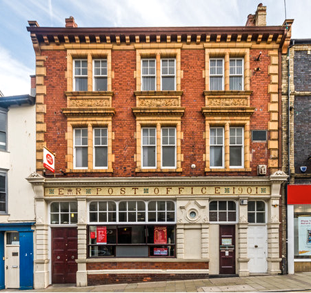 Aberystwyth Post Office: Main post office for Aberystwyth, situated in Great Darkgate Street. Built in 1906 by local draper Daniel Thomas - the date on the date of 1901 on the façade refers to the year of accession of Edward VII, whose initials are also shown.